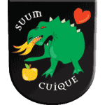 Ladonian Coat of Arms